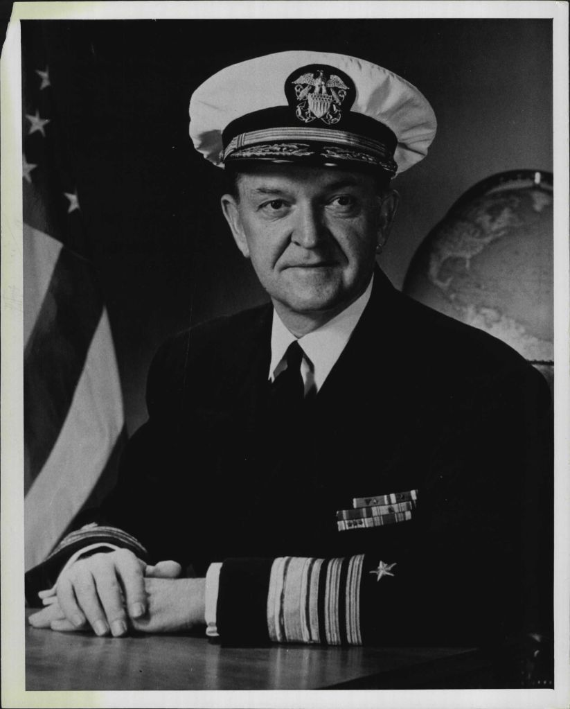 Admiral John Harold Sides (April 22, 1904 - April 3, 1978) was a four-star admiral in the United States Navy who served as commander in chief of the United States Pacific Fleet from 1960 to 1963 and was known as the father of the Navy's guided-missile program.